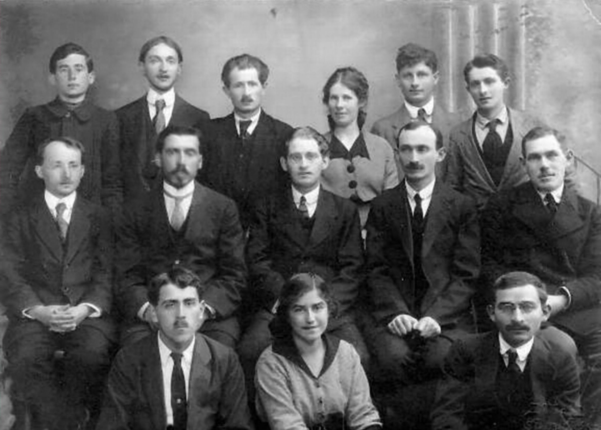 Clerks from the Palestine Office (HaMisrad HaEretz Yisraeli). First from right, in the middle row, is Harari; third is Elitzor (Olitzky), second from right in the last row is Liberman from UIA.